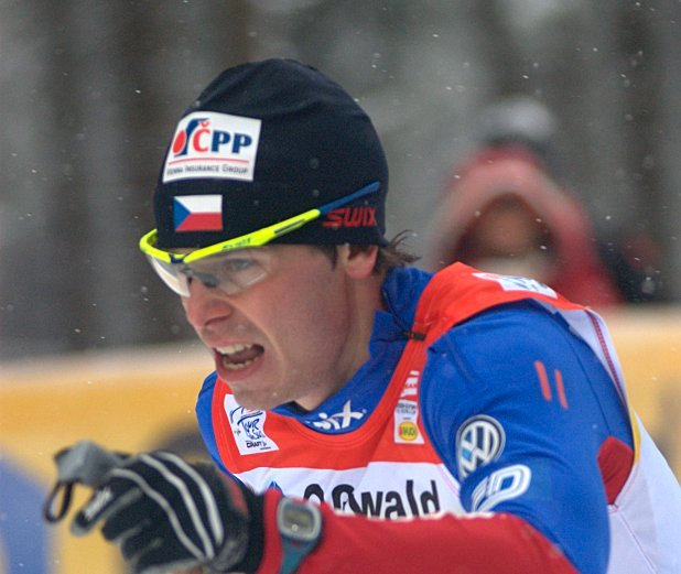 Aleš Razým at the Tour de Ski 2010 in Oberhof